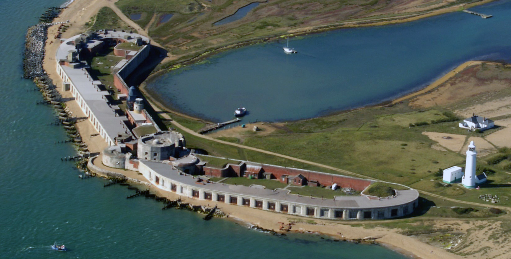 Trimmed image to focus on the castle